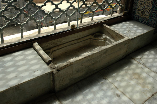 Sabil-kuttab of Abd al-Rahman Katkhuda. Cairo. Egypt